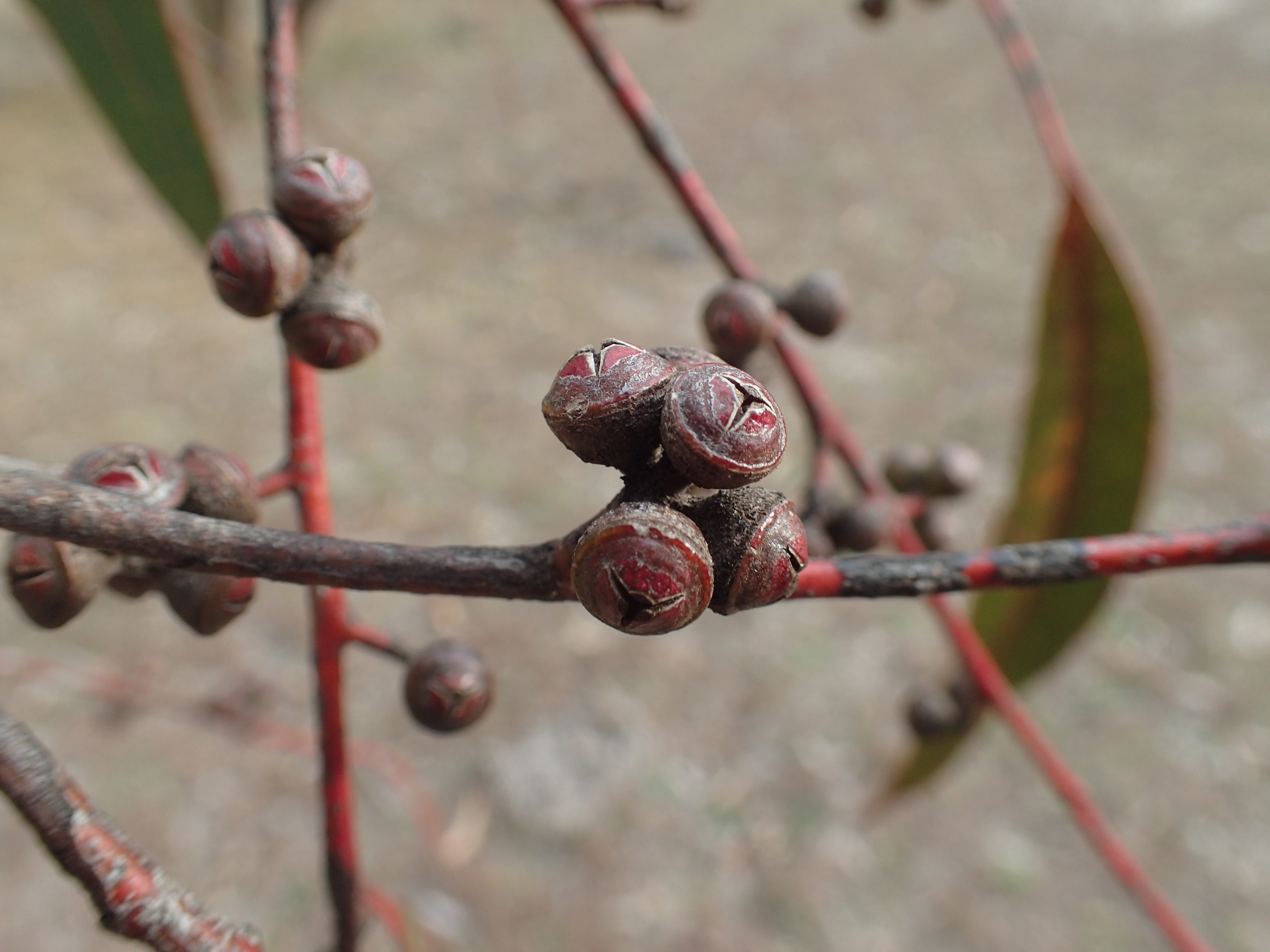 Fruit of Eucalyptus elliptica on a tree 14km west of Walcha